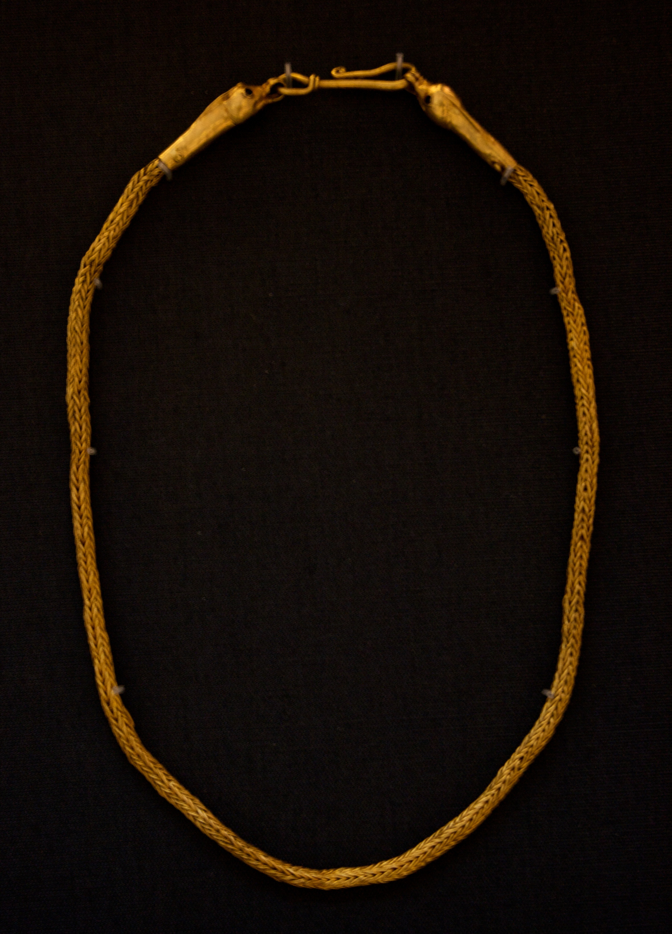 Hoxne Hoard: Necklace.